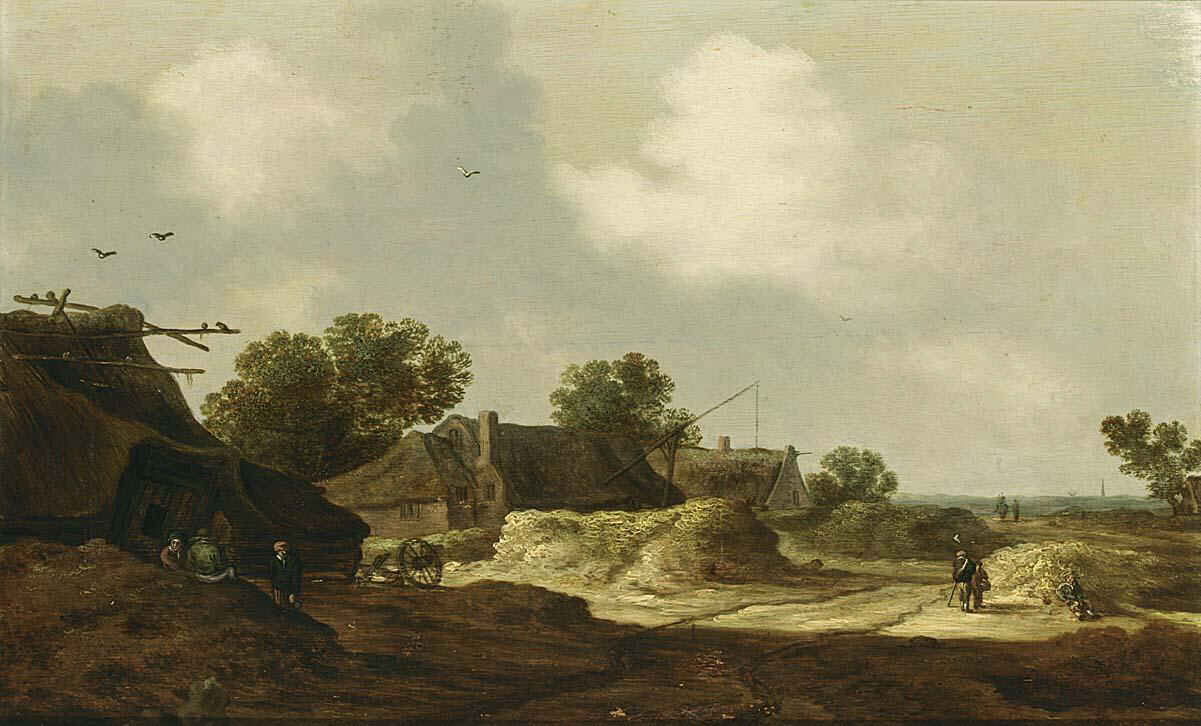 Dune Landscape With Travelers on a Path and Peasants Resting Near Farms